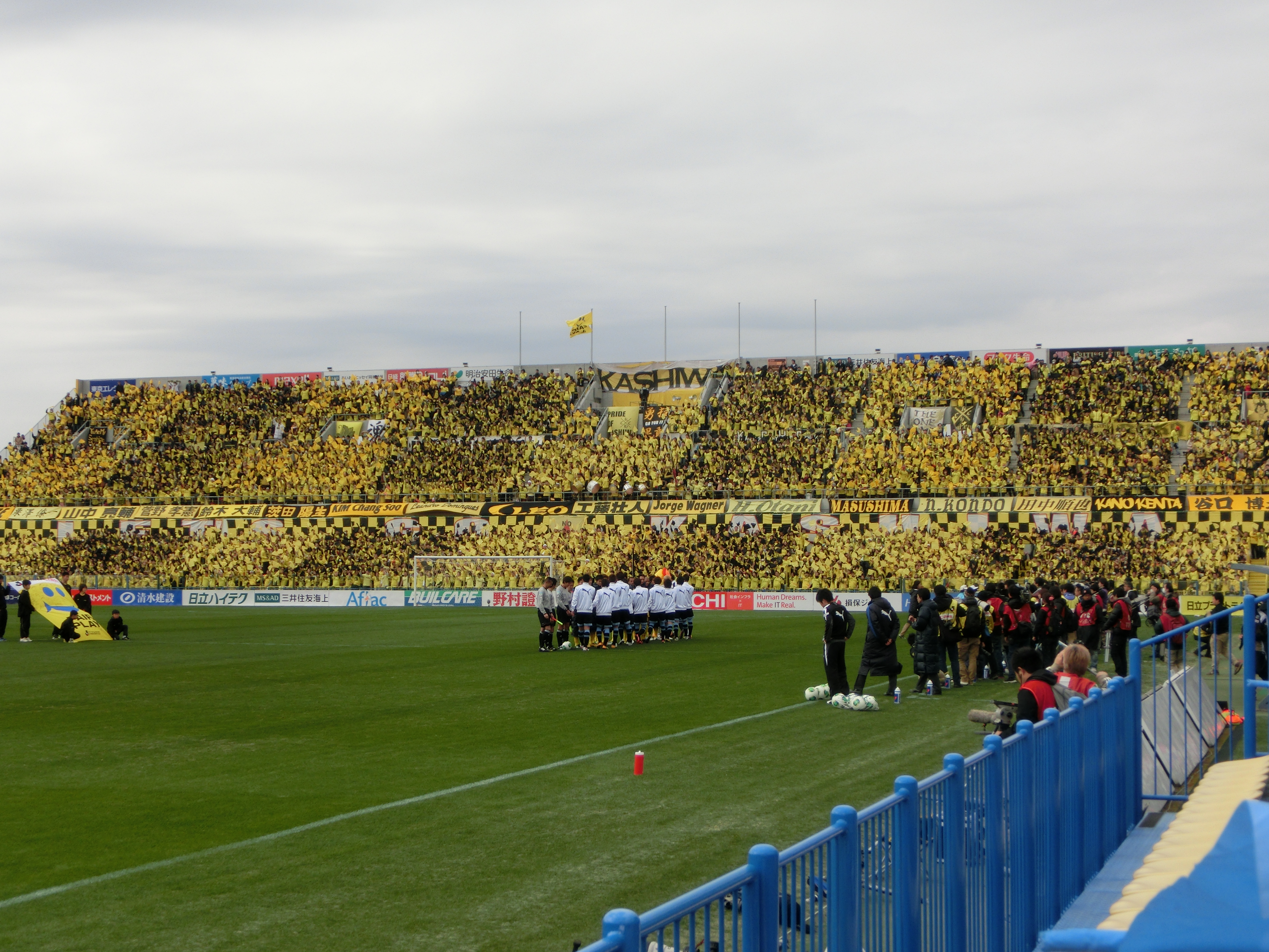 Hitachi-Kashiwa Soccer Stadium